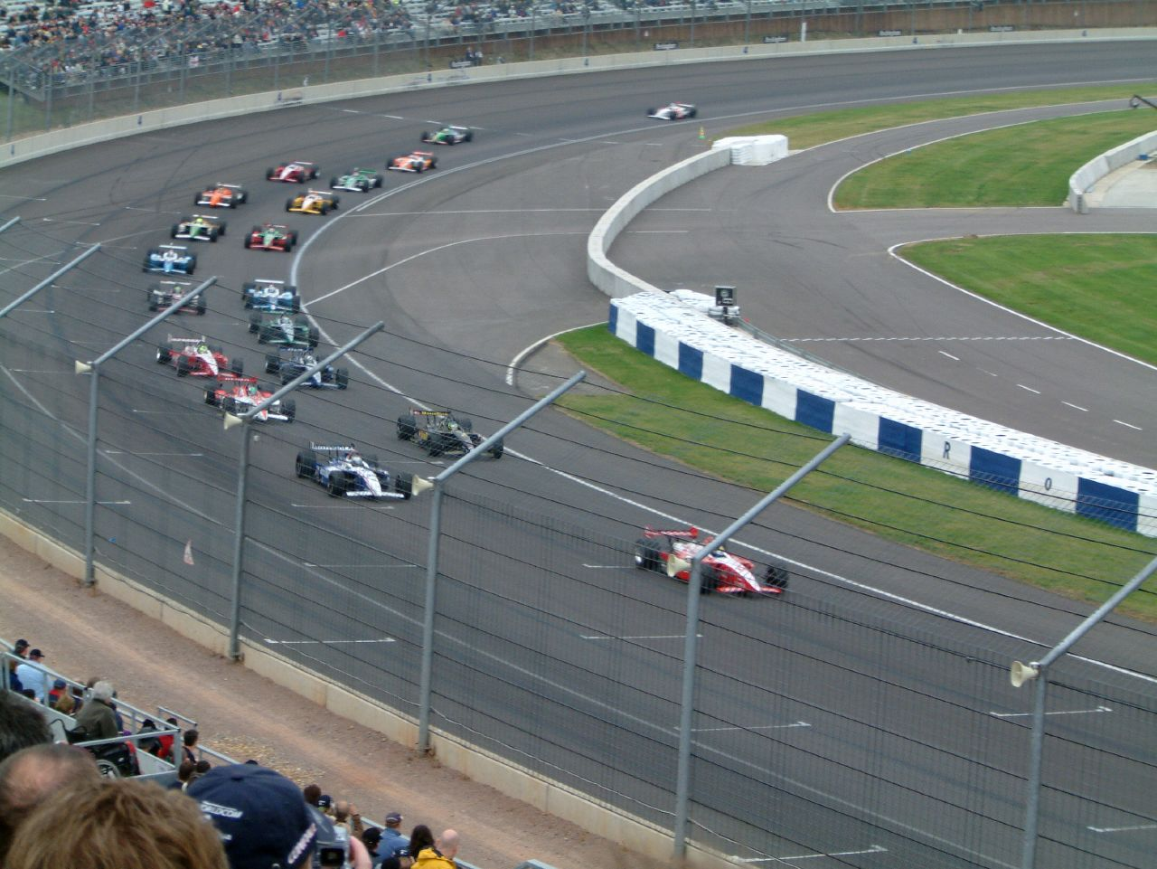 The start of the 2002 Sure For Men Rockingham 500